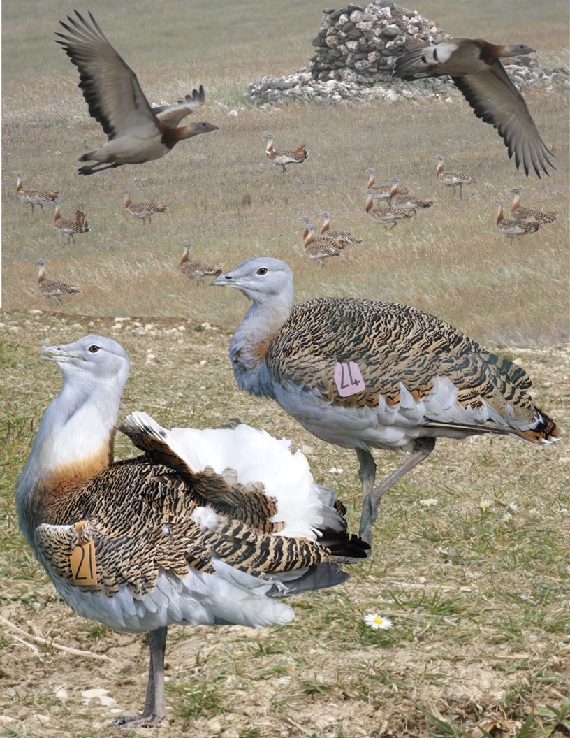 Great Bustard from the Crossley ID Guide Britain and Ireland